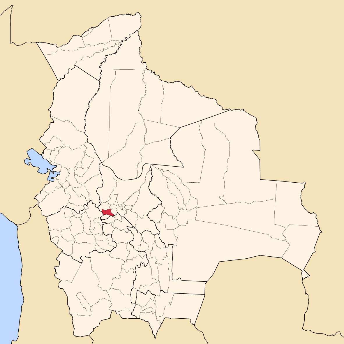 Map of Bolivia showing Arque province